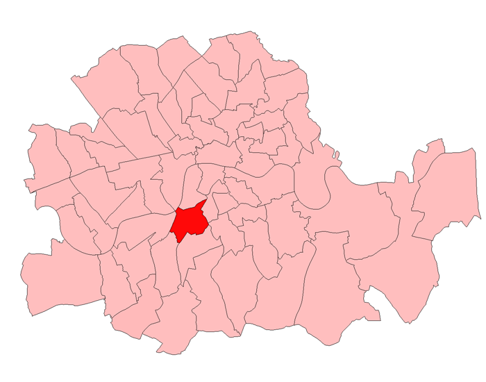 A map of Kennington constituency in the London County Council area as it existed from 1918 to 1949.